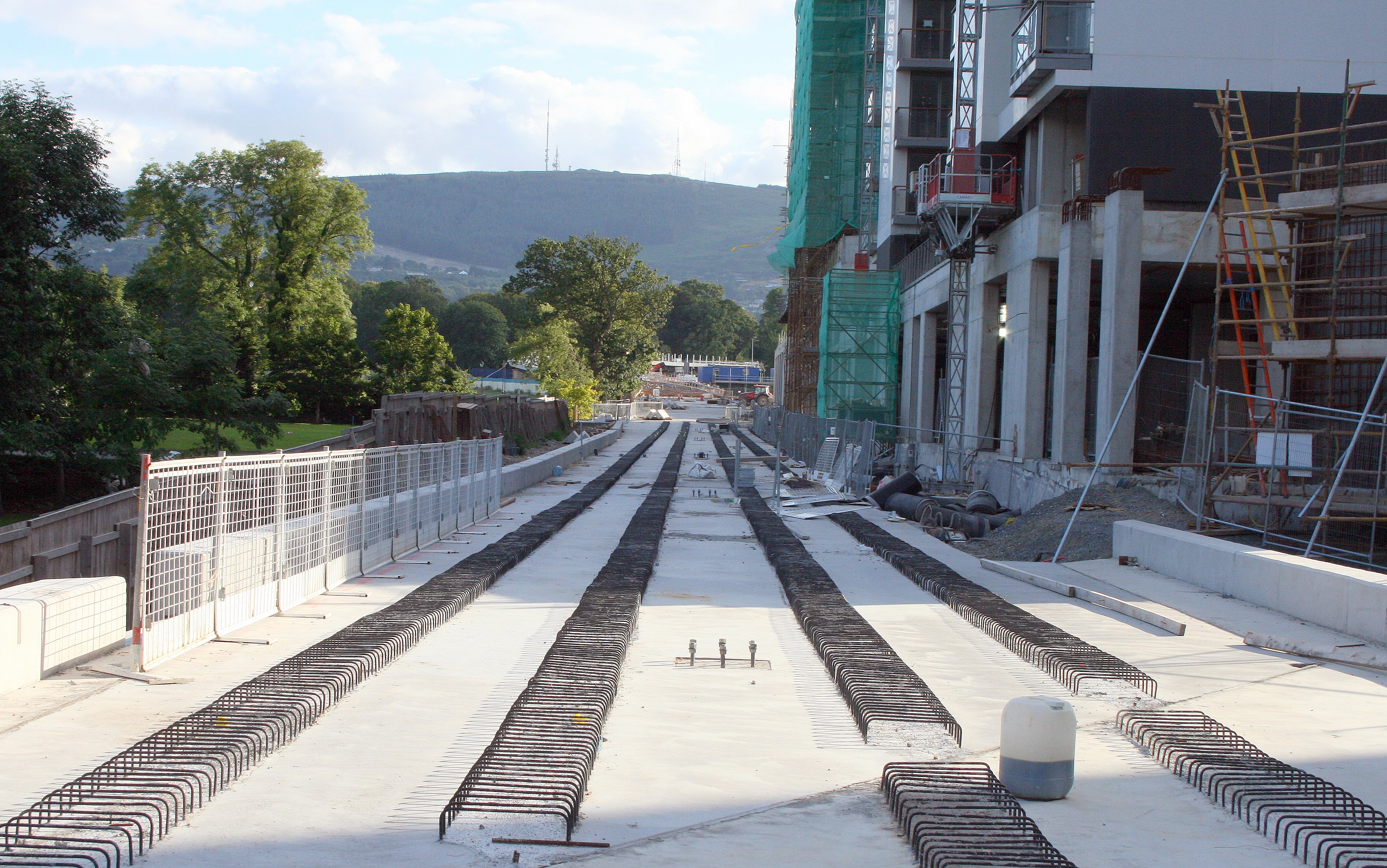 Luas Green line extension under construction at Leopardstown (Central Park) in July 2008.